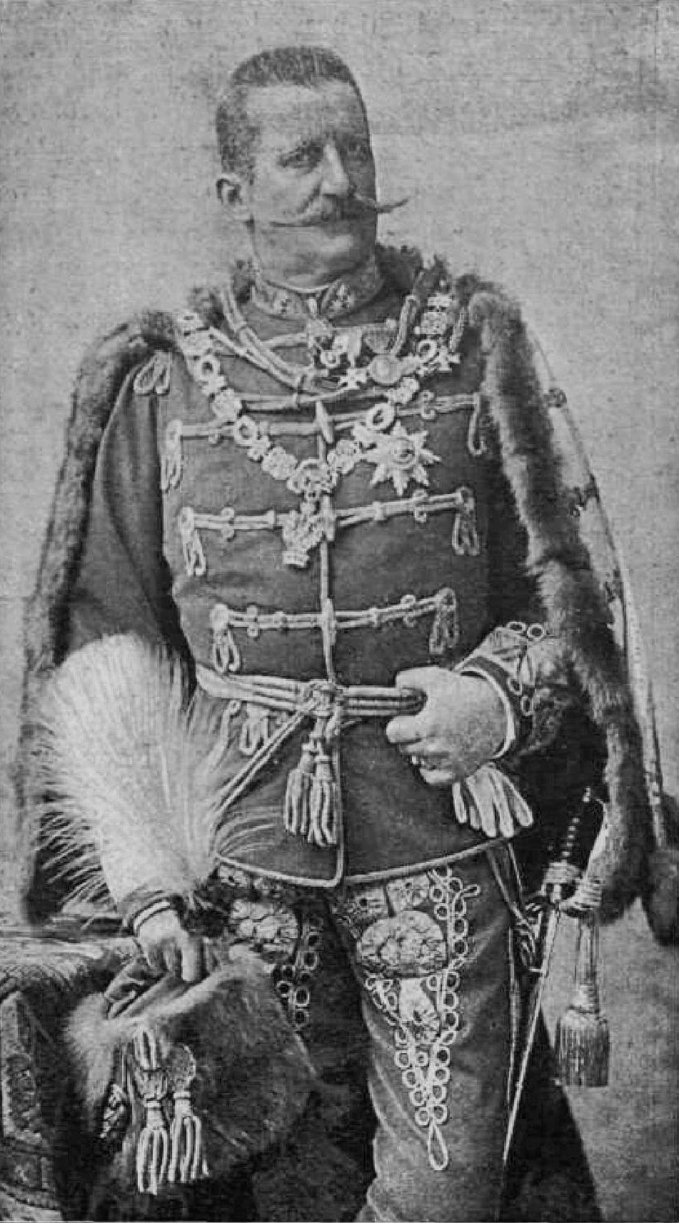 Géza Fejérváry